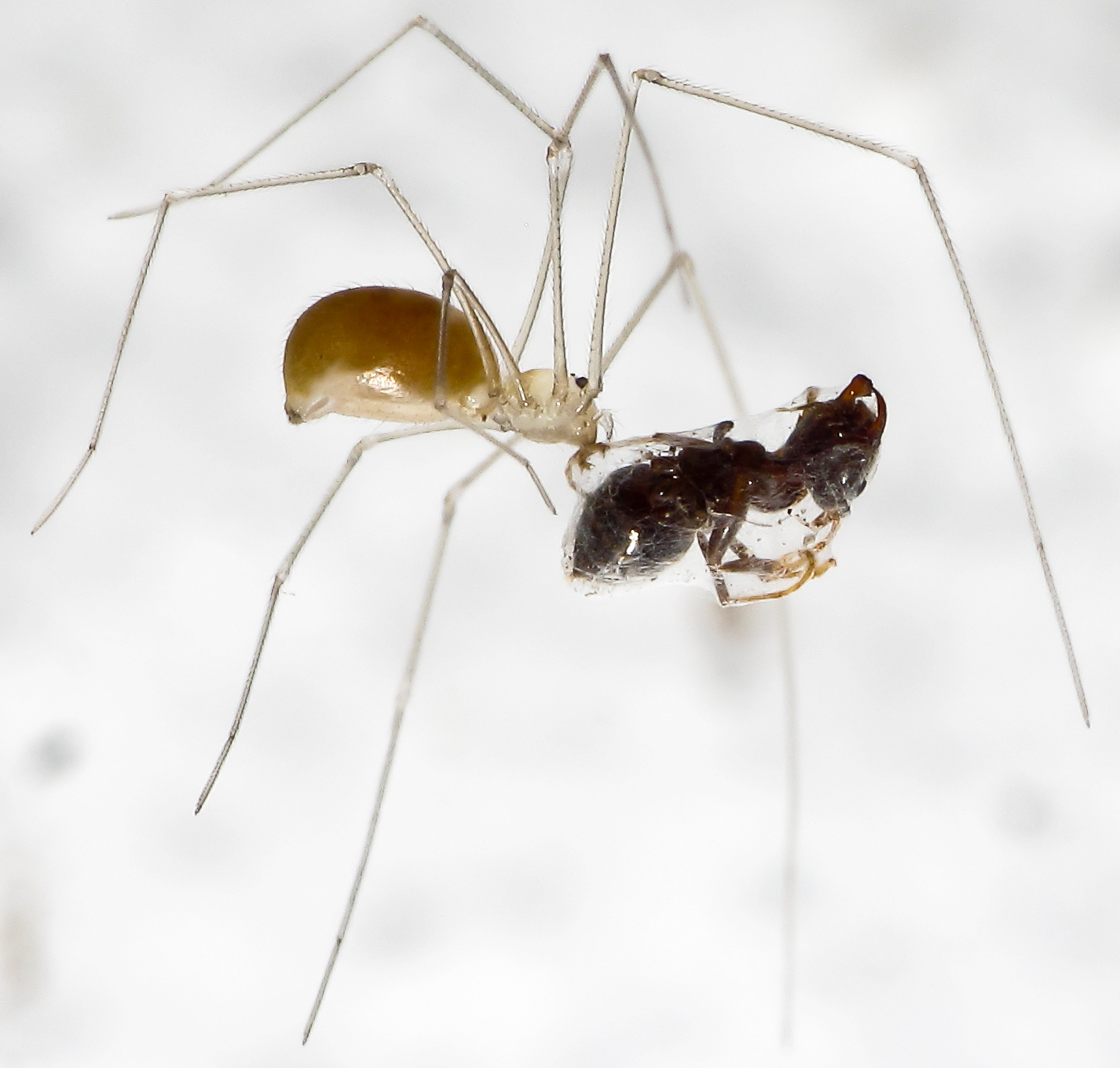 Pholcus phalangioides, Bastavales, Brión, Galicia, Spain Determinado en por Rafael González & Jose Carrillo